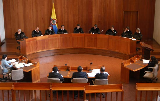 Supreme Court of Justice - Colombia